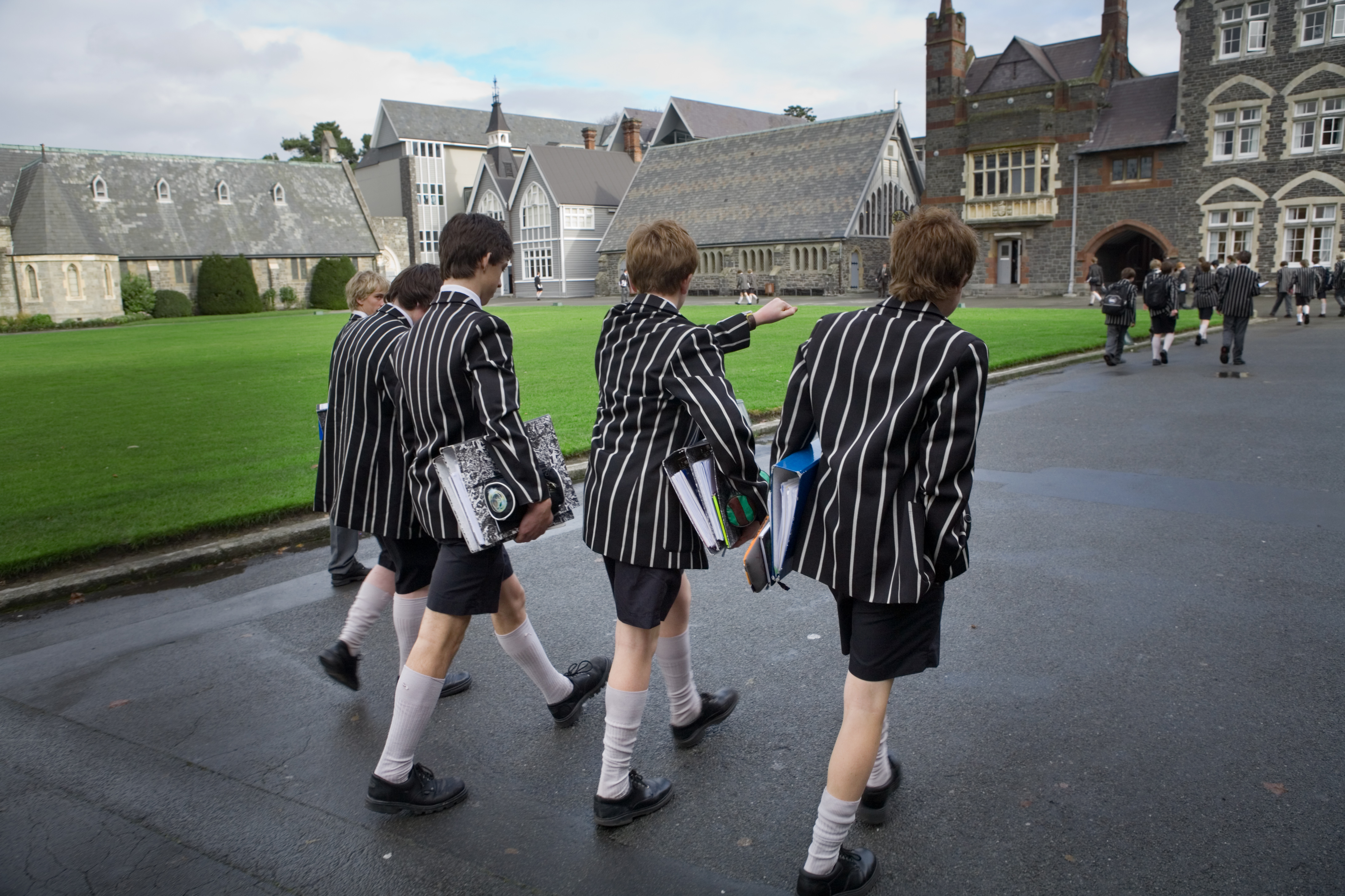 Going to school (Christ's College, Canterbury). Christchurch. New Zealand, 2006